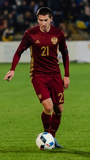 Aleksei Ionov